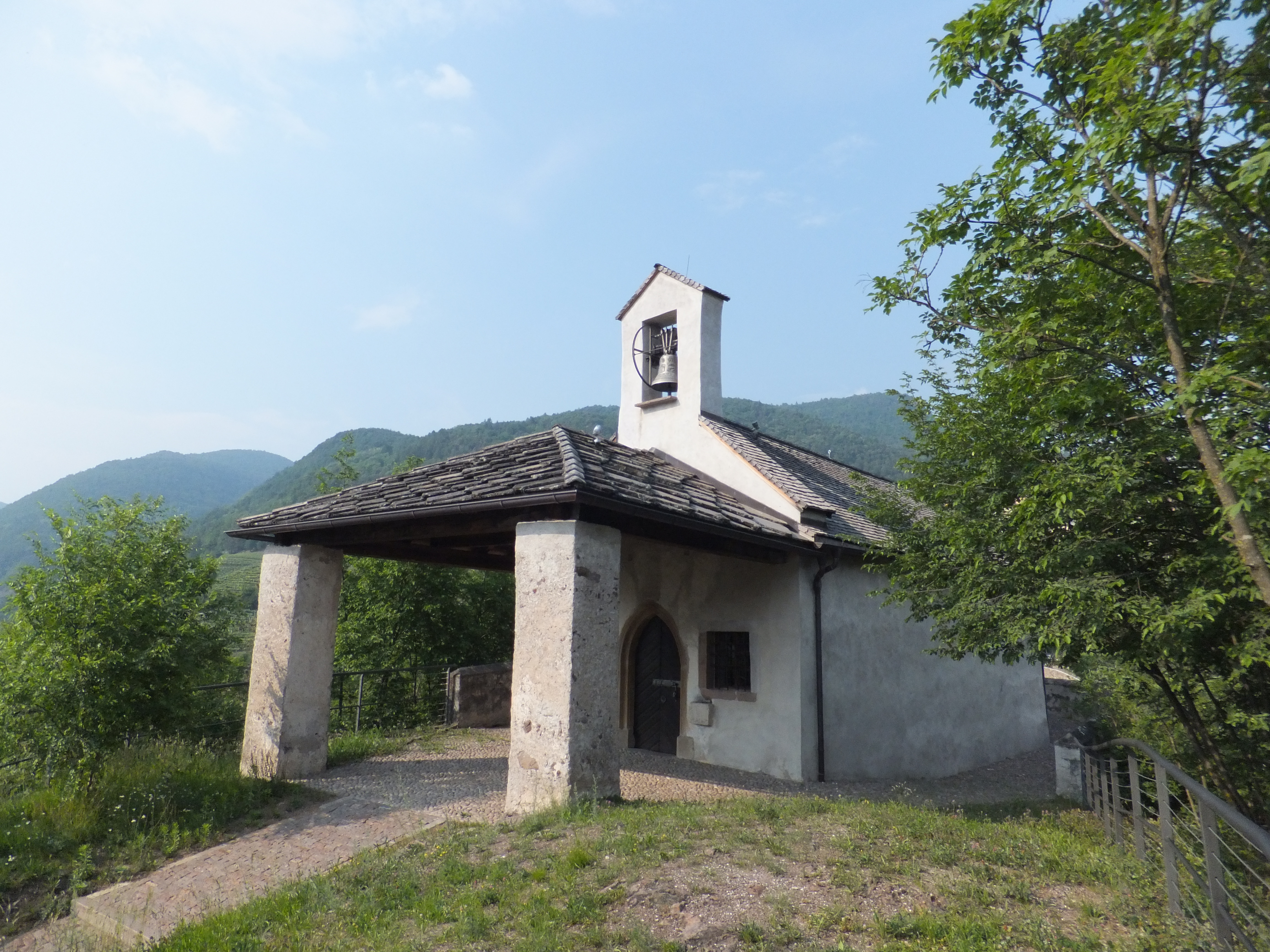 Lisignago (Trentino, Italy) - Church of Saint Leonard